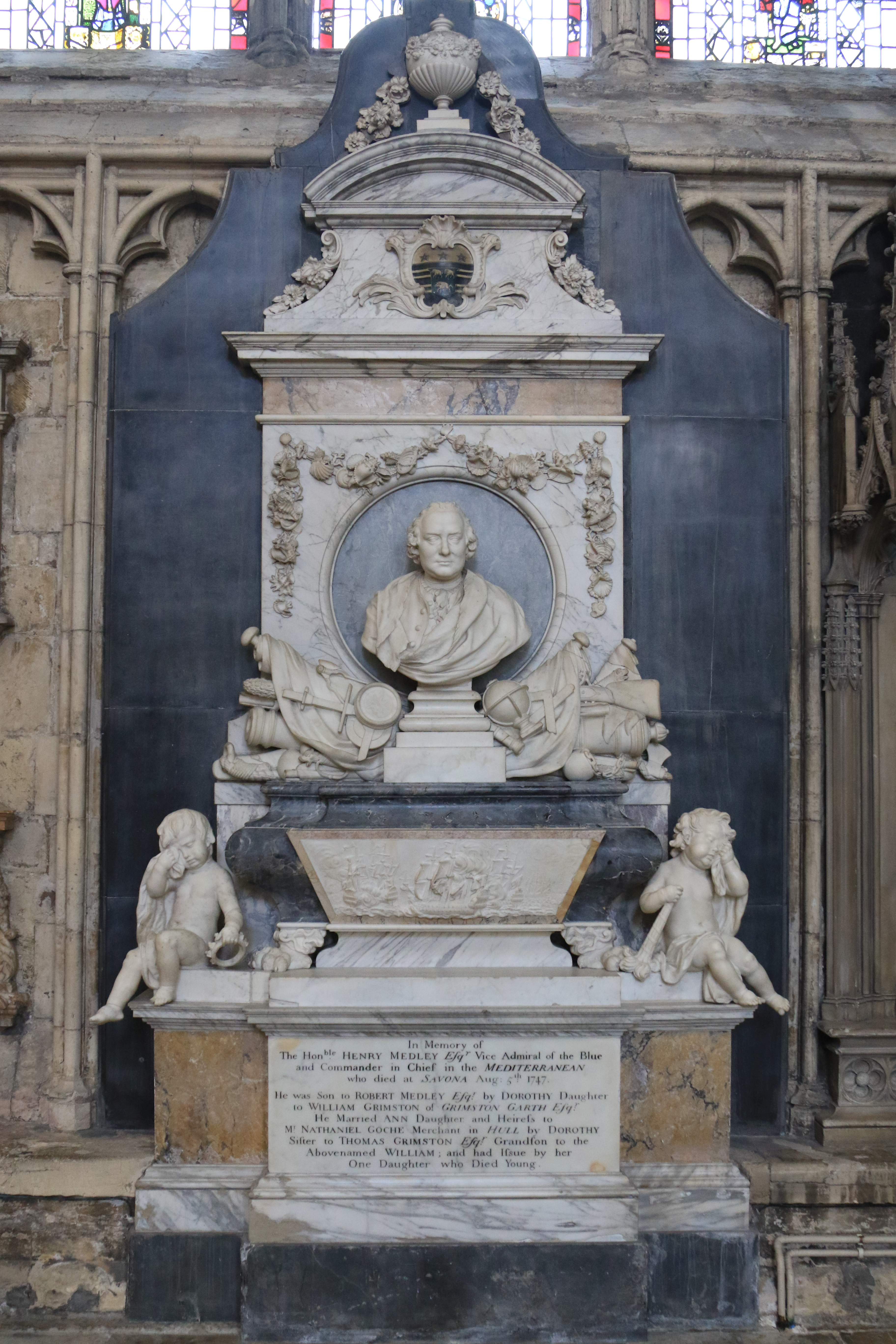 The Honourable Henry Medley, Vice Admiral of the Blue, and Commander in Chief of the Mediterranean, who died at Savona Aug 5th 1747. He was son to Robert Medley Esq, by Dorothy daughter to William Grimston of Grimston Garth Esq. He married Ann daughter and heiress to Nathaniel Goche merchant in Hull by Dorothy sister to Thomas Grimston Esq Grandson to the Abovenamed Williaml and had issue by her one daughter who died young.